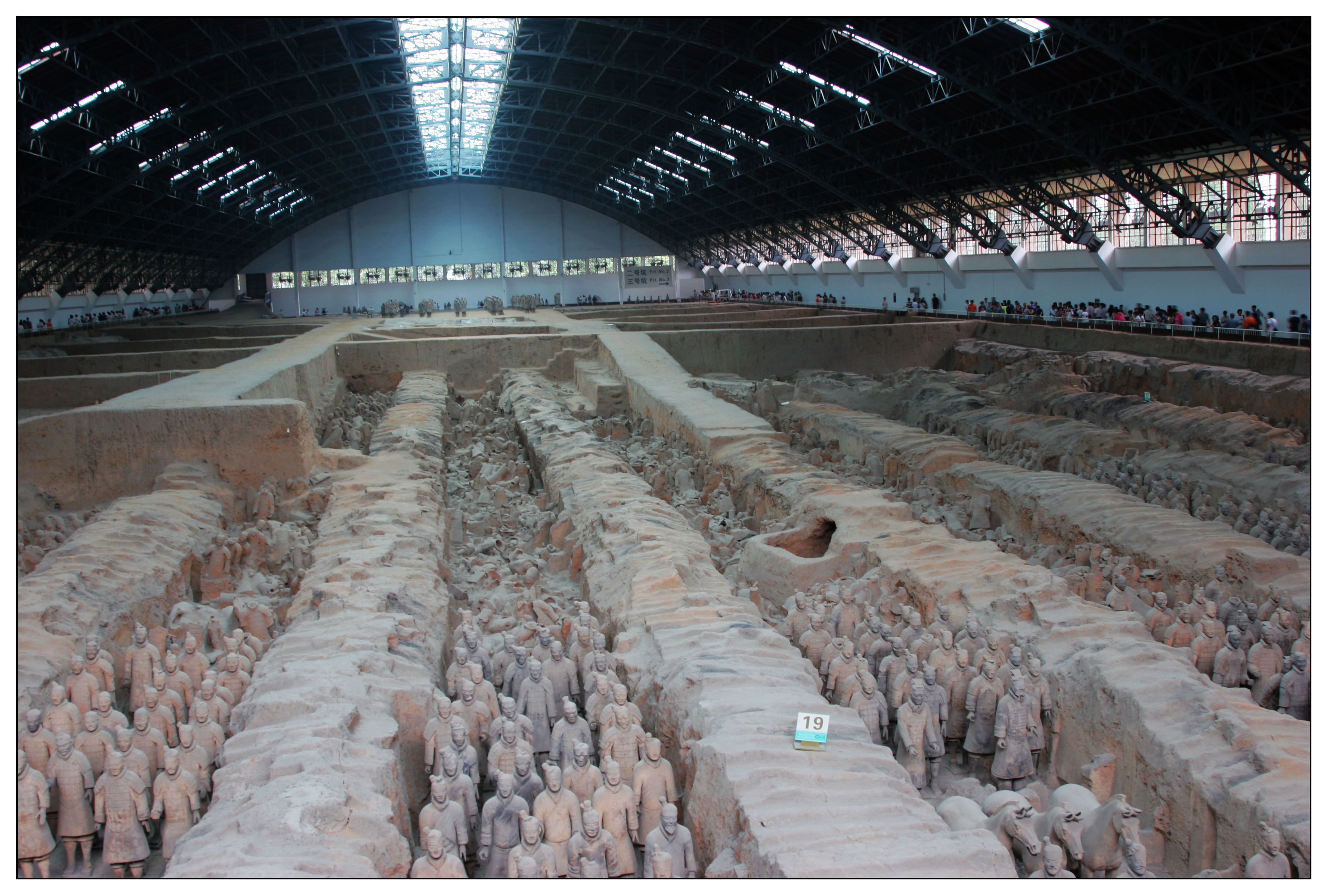 Terracotta Army